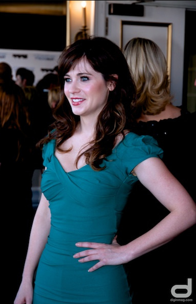 Actress Zooey Deschanel at the 57th Annual San Francisco International Film Festival.57th Annual San Francisco International Film Festival | 2014 Film Society Awards Night